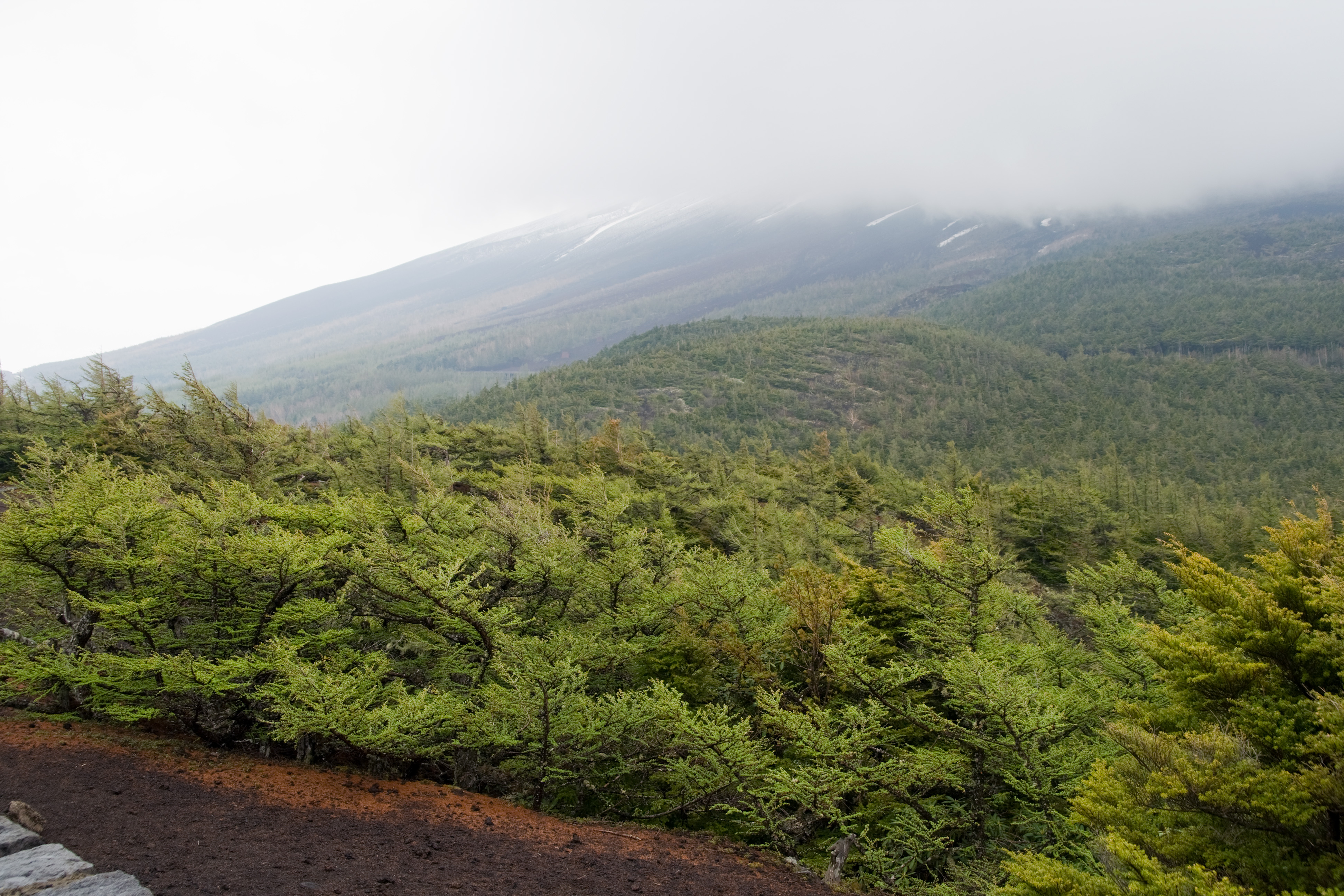 Japanese Larch Larix kaempferi, Okuniwa (奥庭) in Mt.Fuji, Yamanshi Prefecture, Japan. Elev-2190m